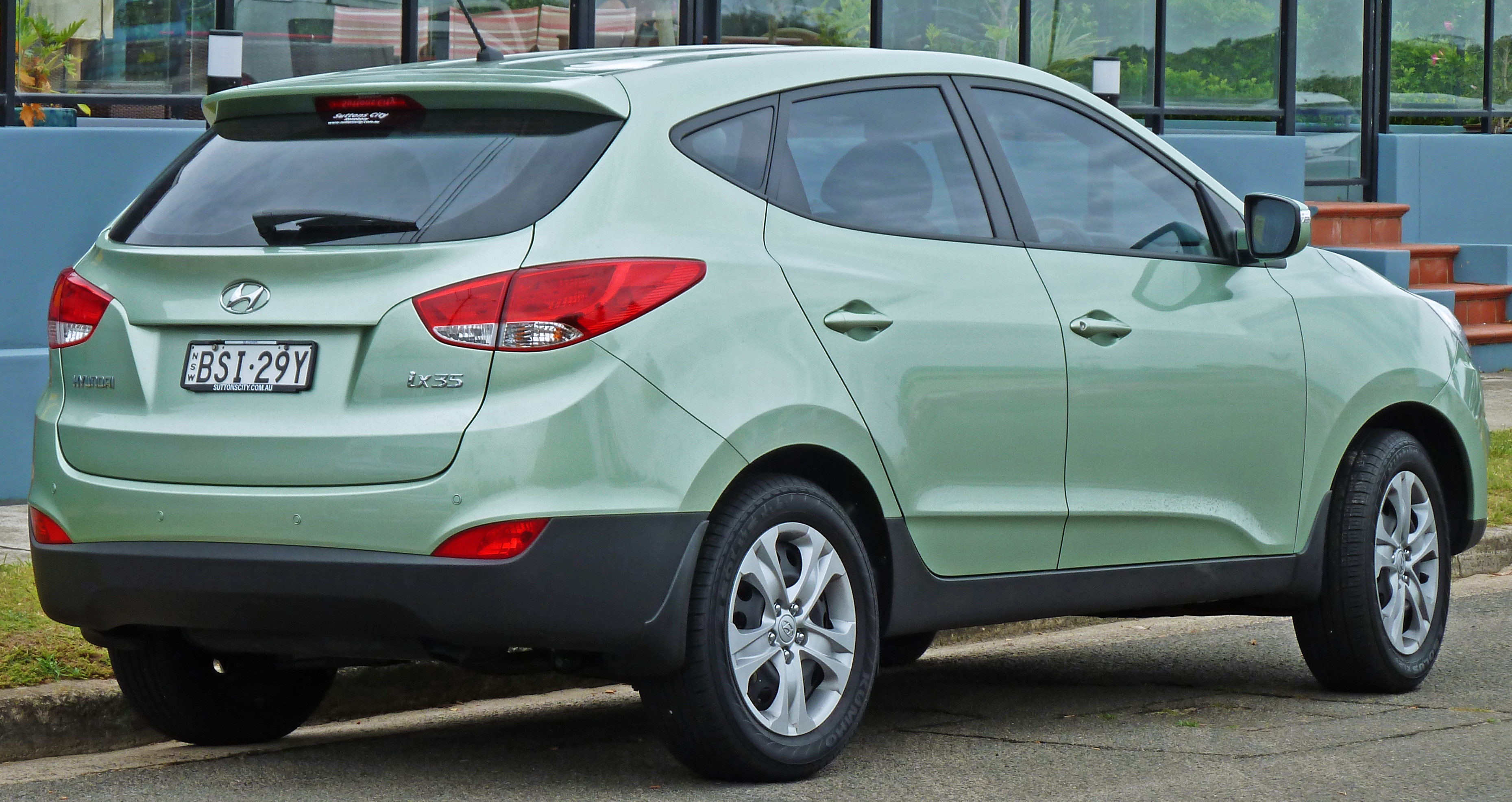 2010 Hyundai ix35 (LM) Active wagon. Photographed in Sans Souci, New South Wales, Australia.